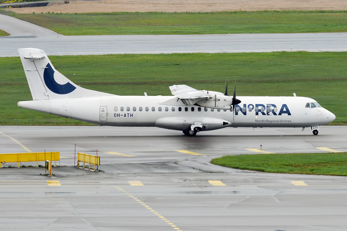 Nordic Regional Airlines, OH-ATH, ATR 72-500